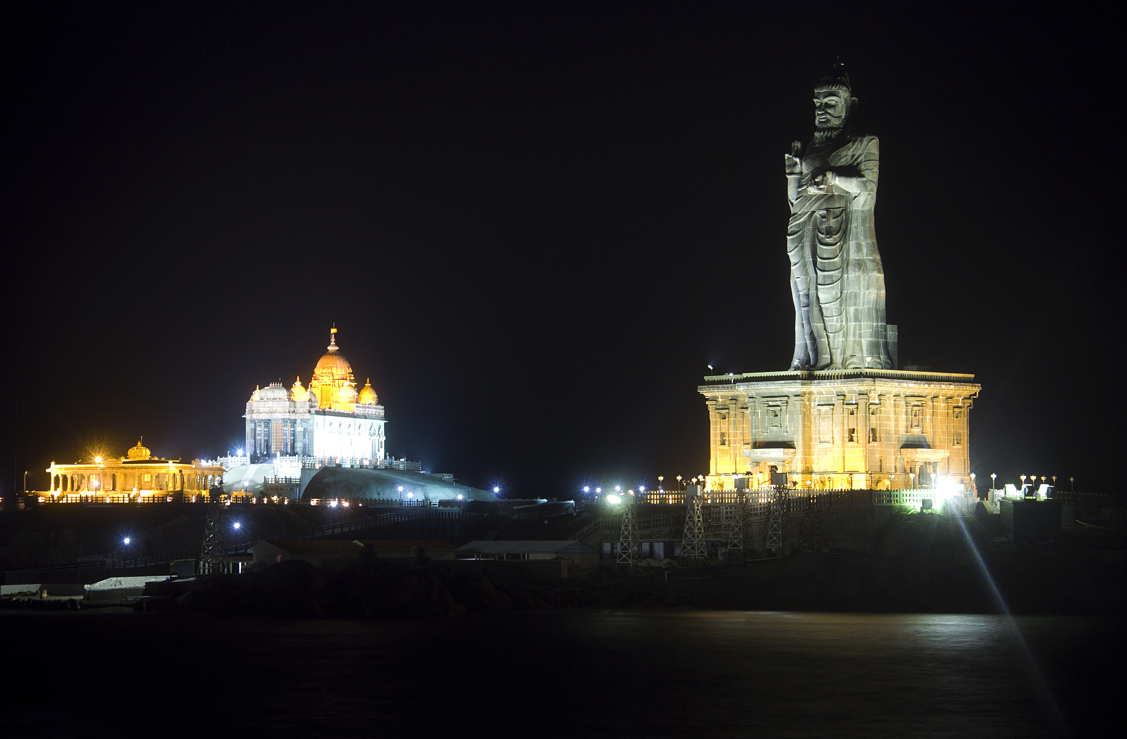 Kanyakumari